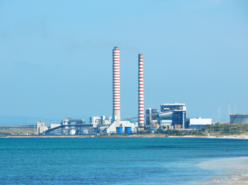 fiume santo power station coal or oil sassari, sardinia